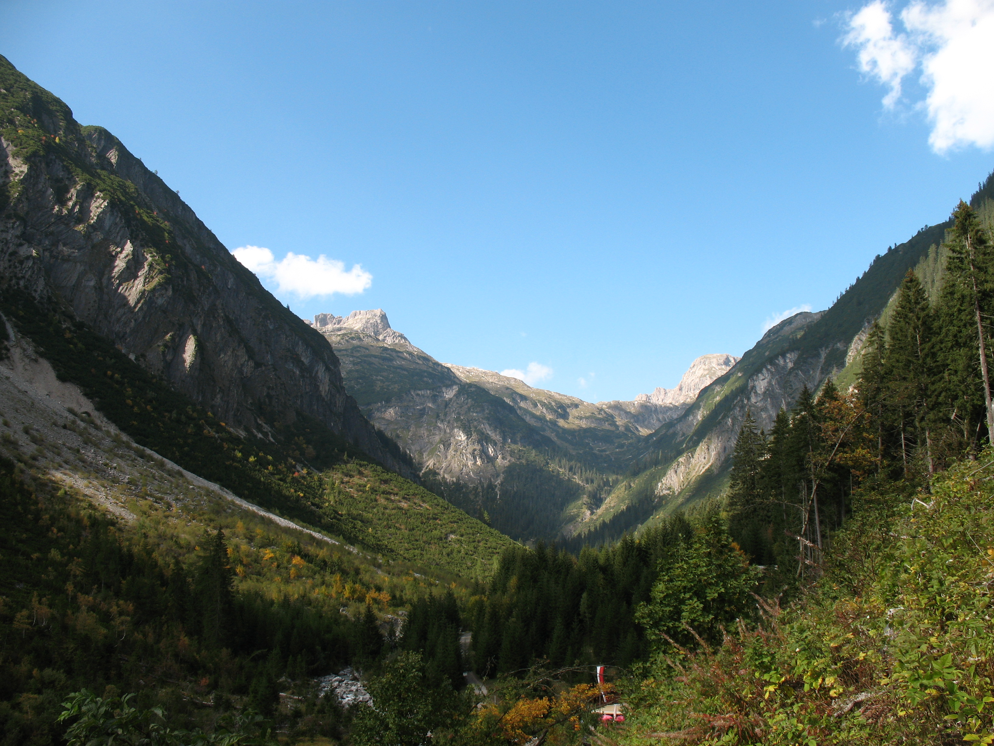 View north the valley of the river Höhenbach. The head of the valley form the mountain-flanks of Kratzer (2428 m) and Muttlerkopf (2368 m). The European walking route E5 leads along the valley on the stage between the mountain-huts Kemptner Hütte and Memminger Hütte.